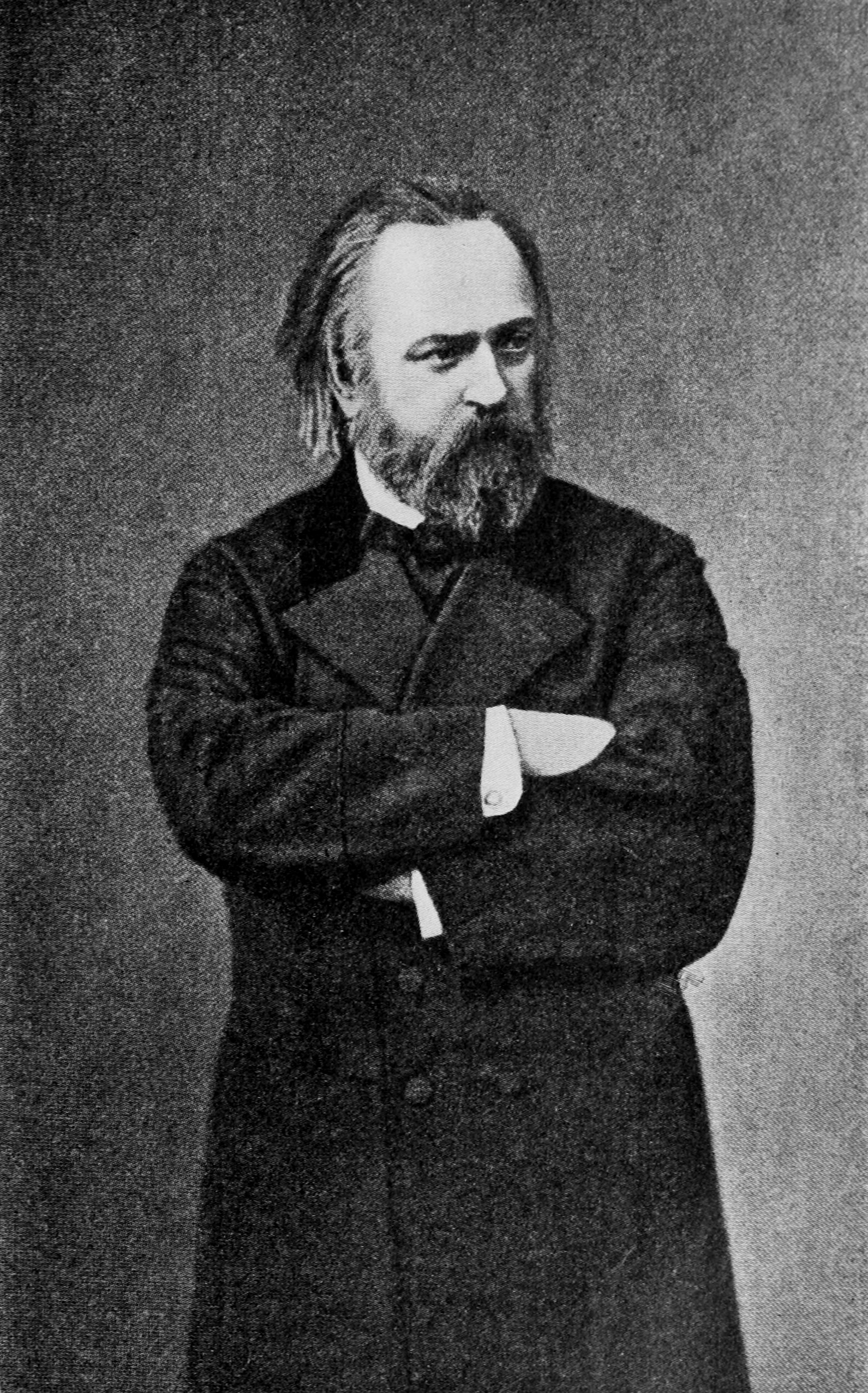 Alexander Herzen